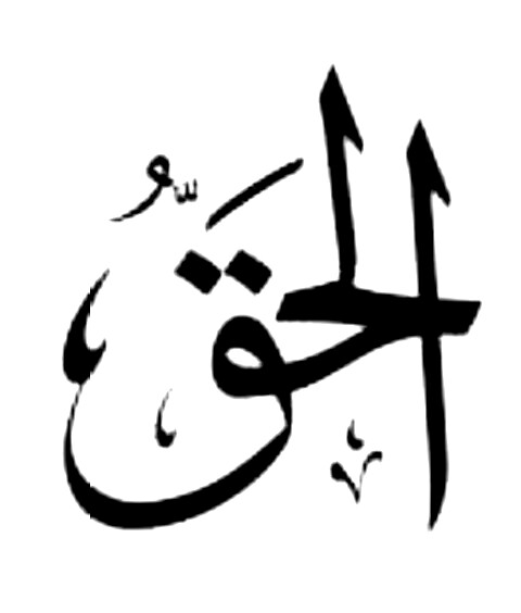 Al-Haqq / The Truth / The Real is a name of God in Islam, is a name of Allah.